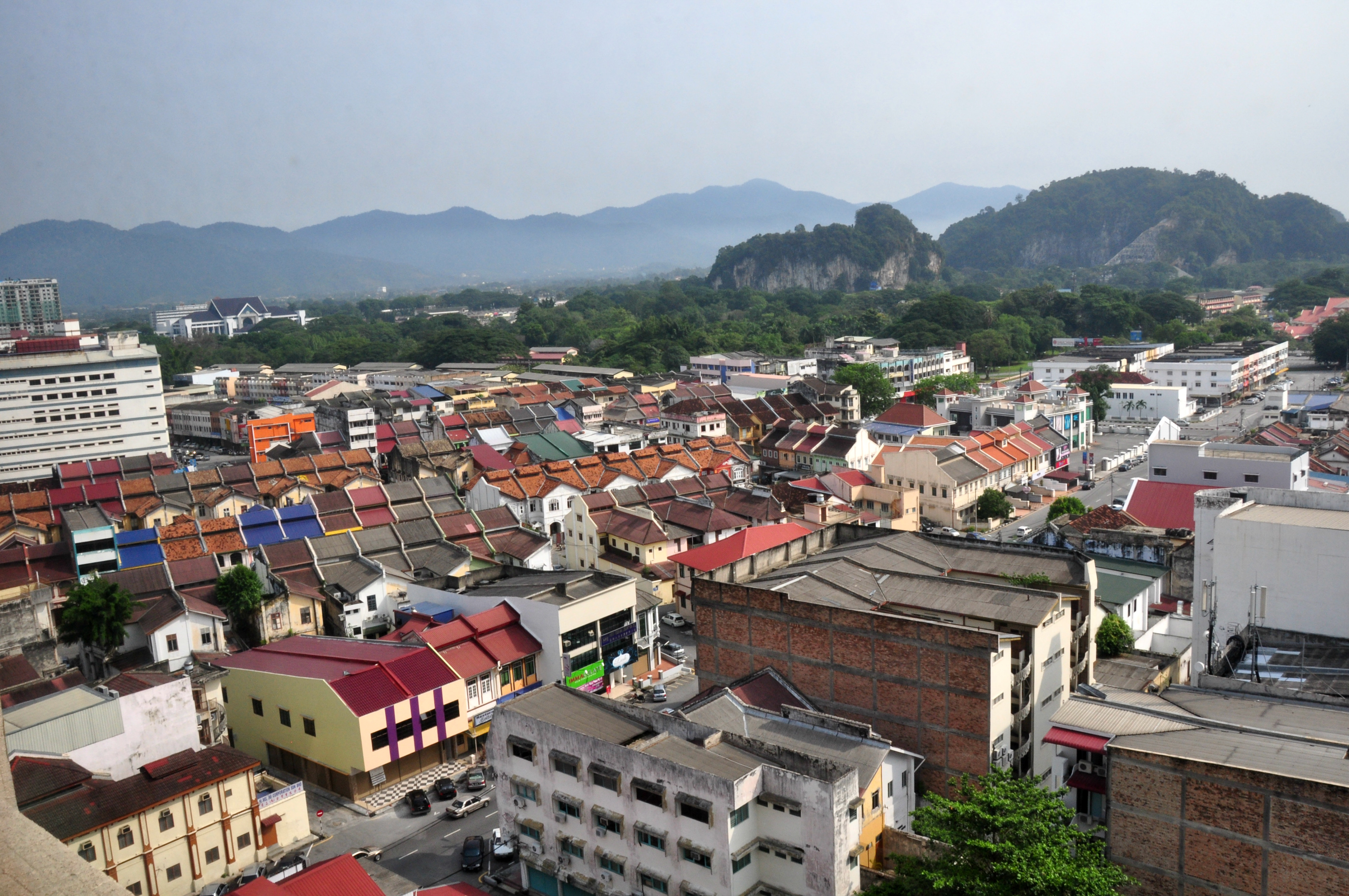 View overlooking Ipoh town